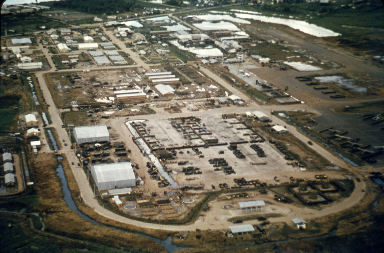 In June 1967 at Can Tho the 69th Engineer Battalion took over the completion of two aircraft hangars, a dial exchange building, a communications building and a motor maintenance building all of which had been started by RMK. Completion of these facilities is set for the end of October. The Battalion has also started construction of a 1200 man cantonment shown in the center portion of this photograph. The estimated completion date for the project is March 68. The battalion has a company size force here at this location augmented by approximately 90 former Vietnamese employees of the contractor.